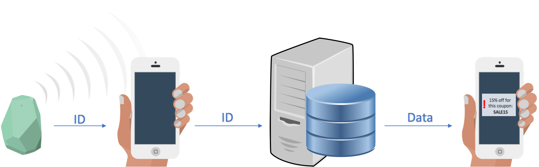 beacon work